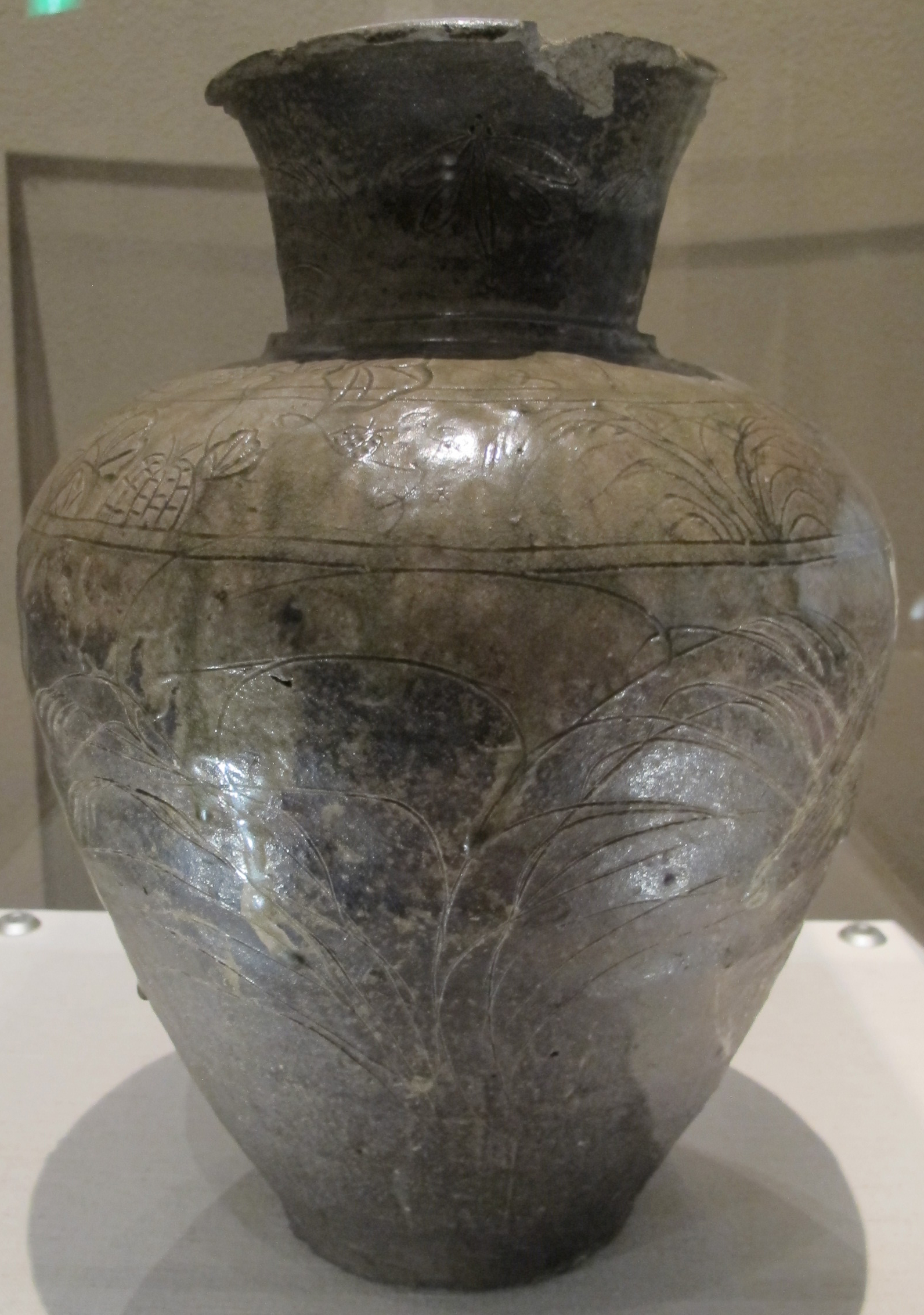 Autumn Grass Bunbu (Atsumi Kiln), Kanagawa Prefecture Kawasaki-shi Fukuchi-shi excavated from Minagosezu, Heian era (12th century). National Treasure. School corporation Keio University Collection. Tokyo National Museum.